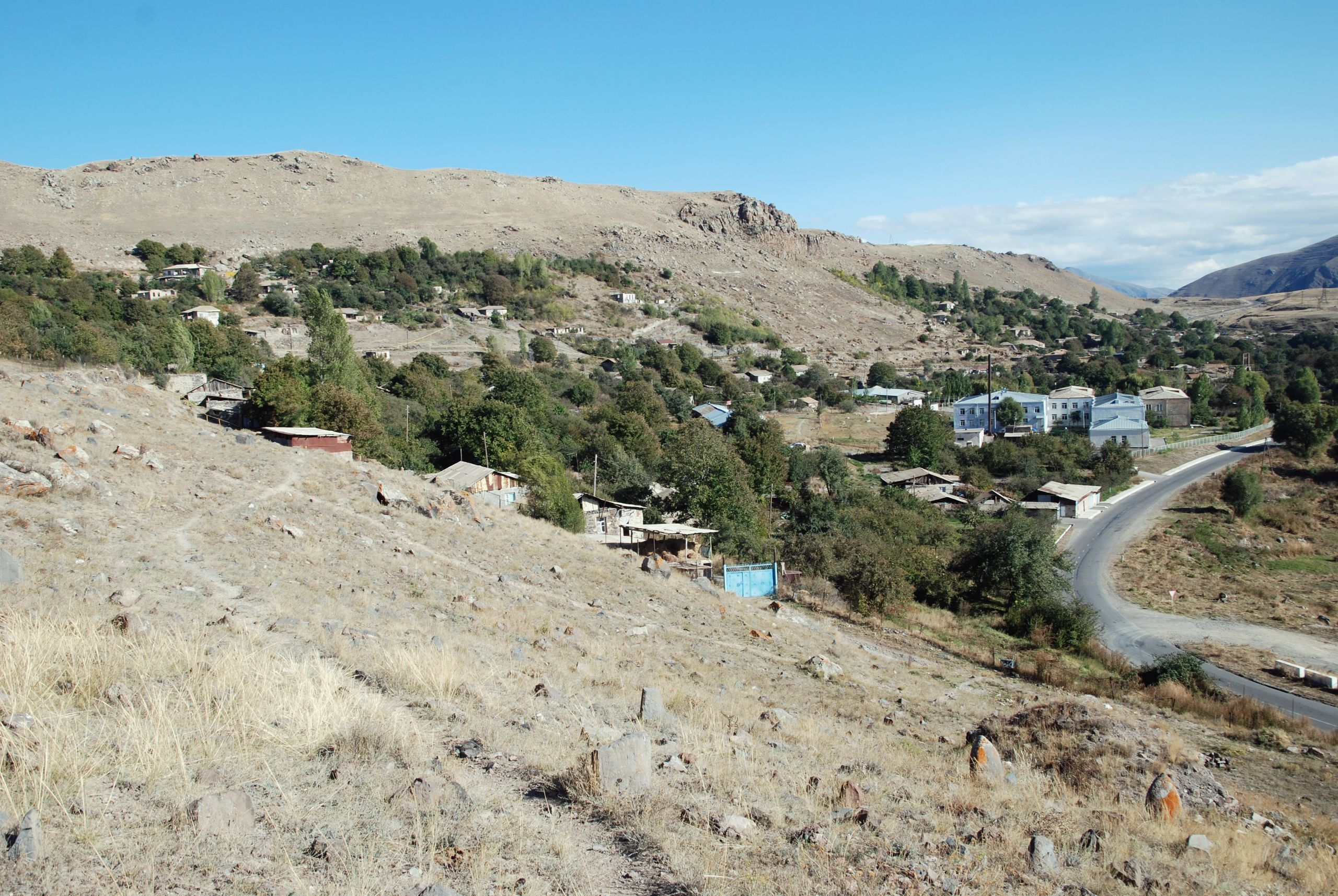 Muslim cemetary and Aghitu from west